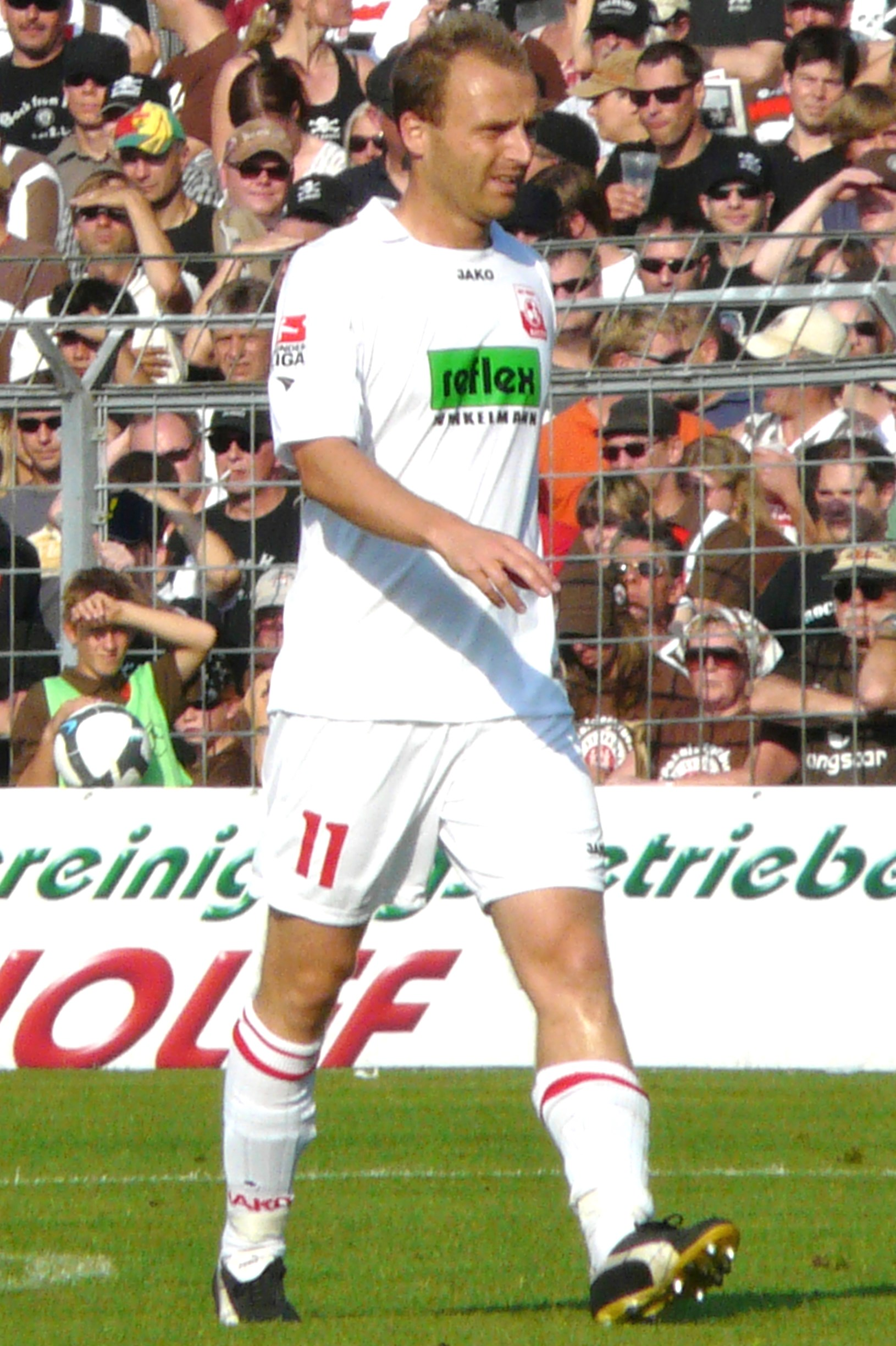 Lars Toborg as Player from RW Ahlen